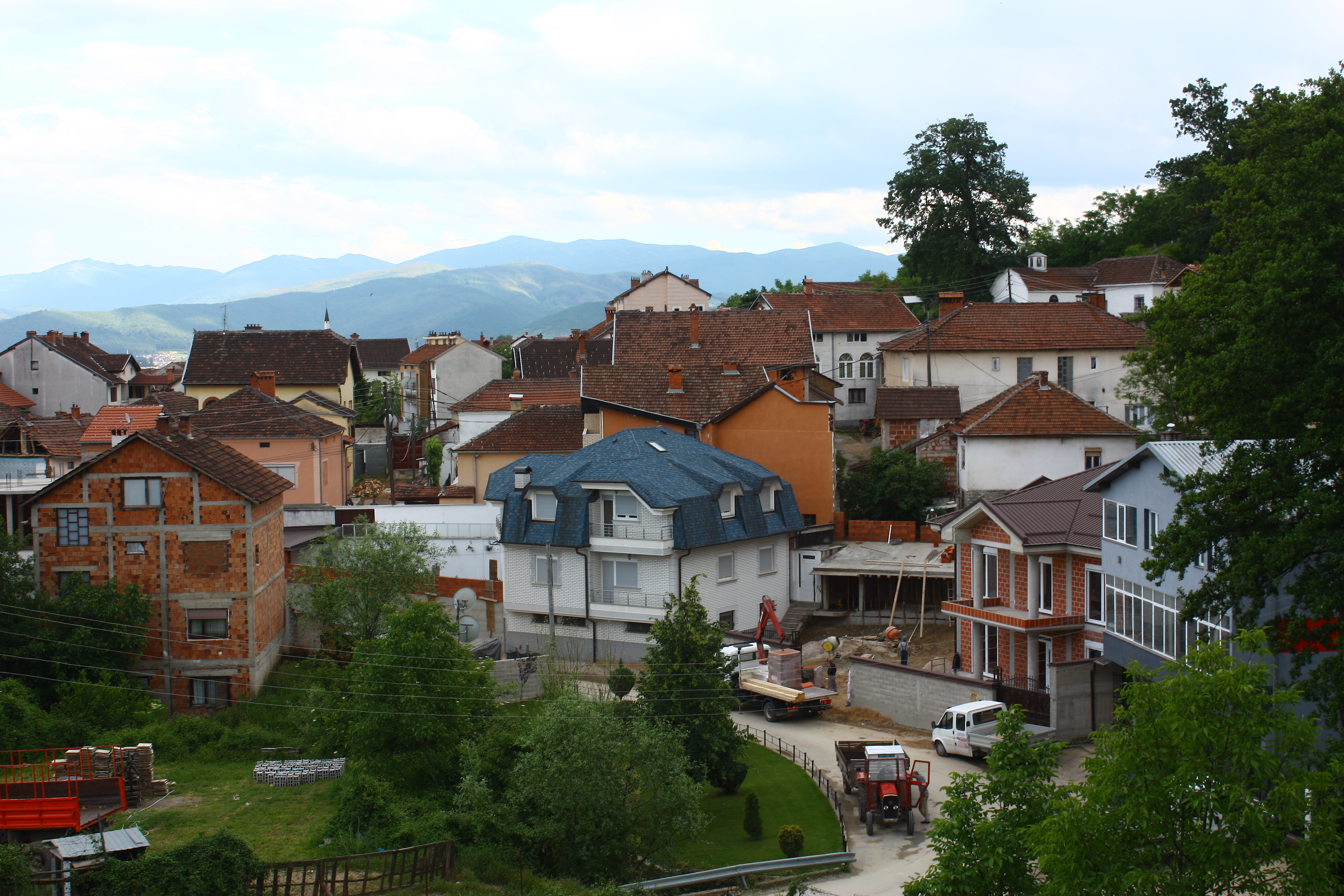 Vrapčište, Macedonia